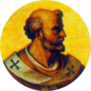 Portait of Pope Innocent II in the Basilica of Saint Paul Outside the Walls, Rome